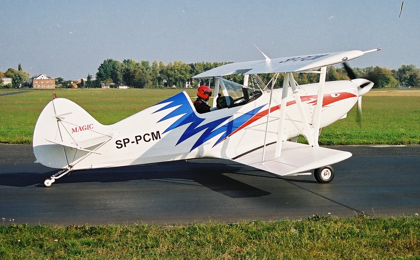 DEKO-9 Magic aircraft